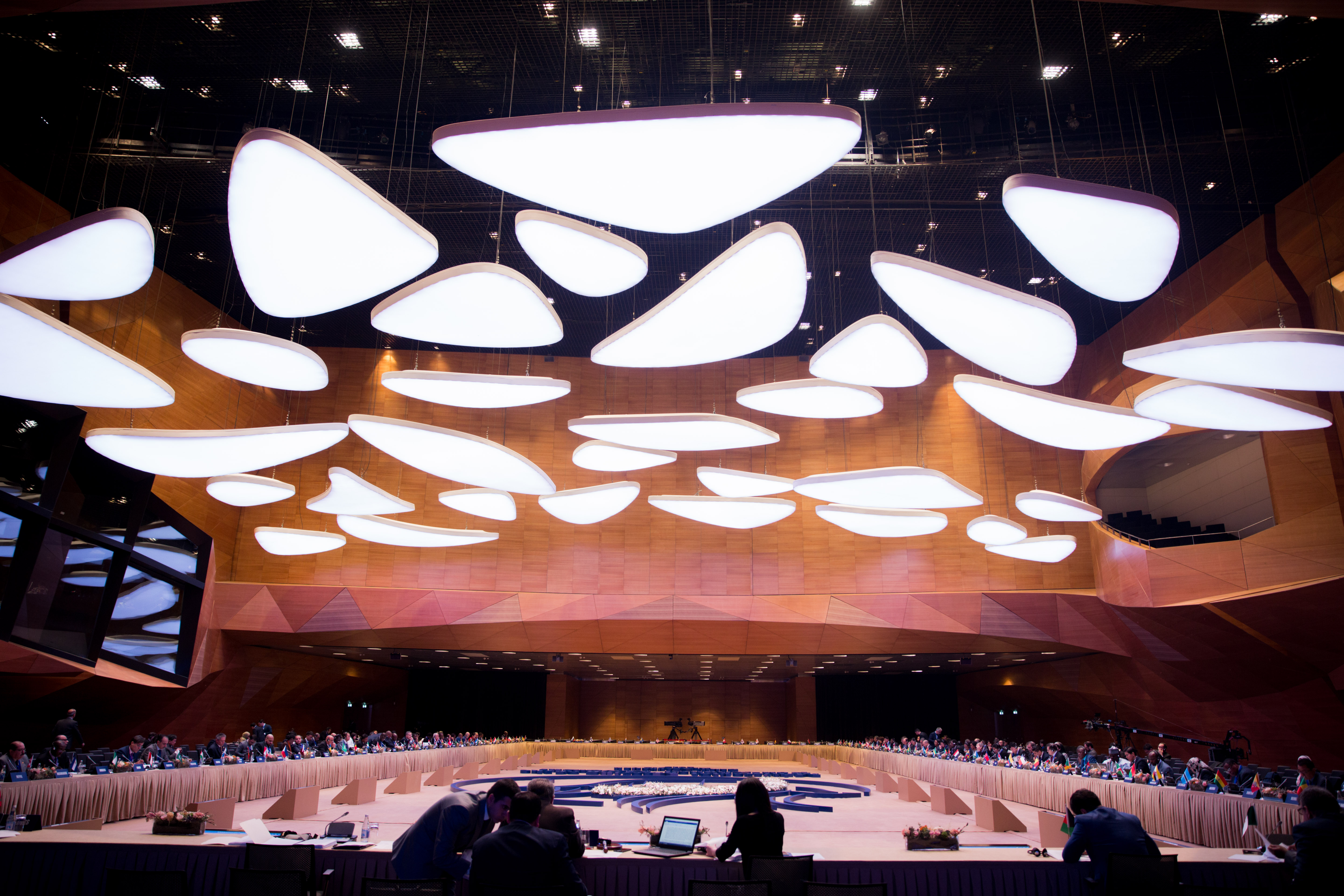 Auditorium of Baku Convention Center